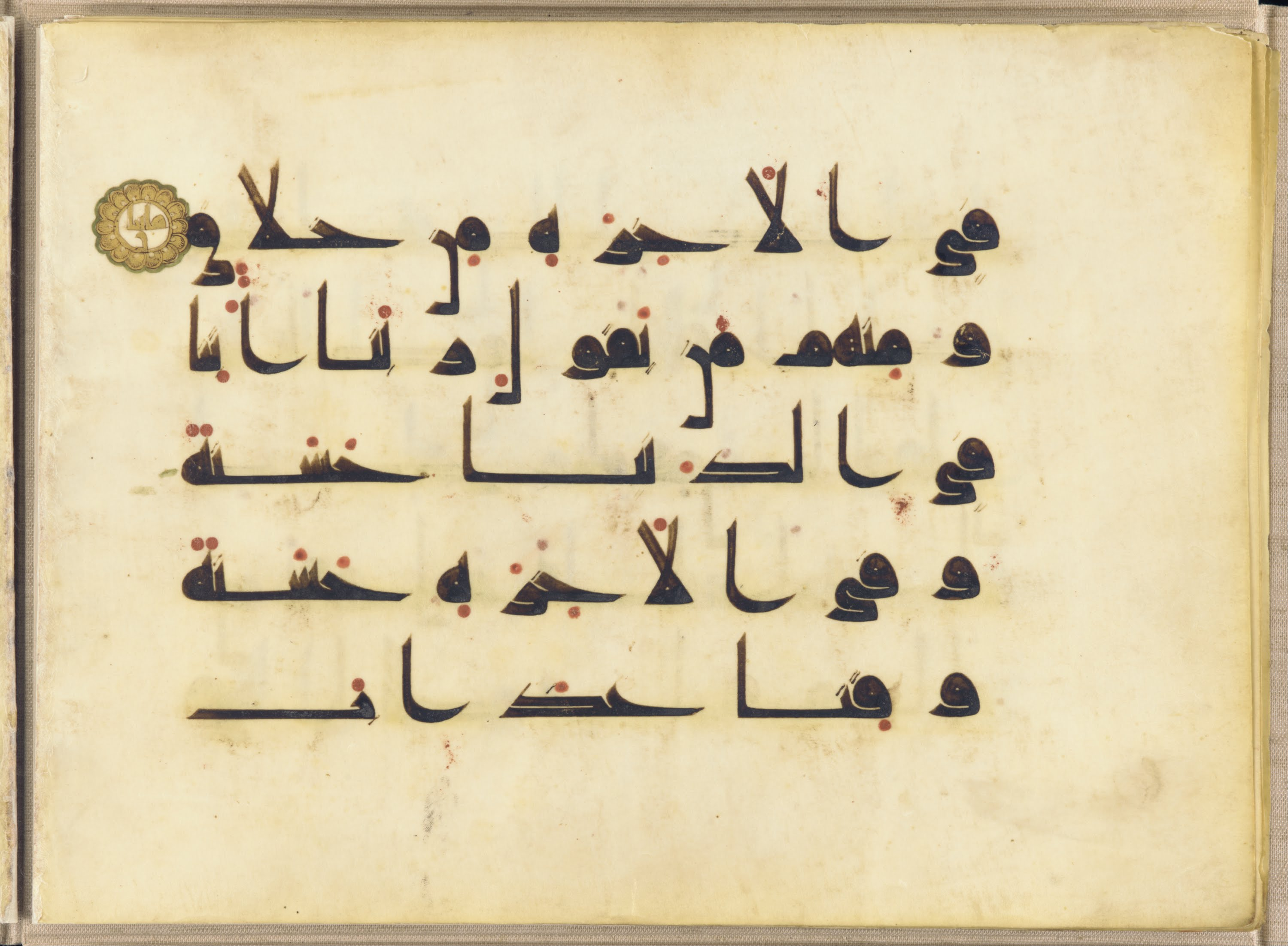 Most Korans from the late ninth and early tenth centuries are written with a reed pen in dark brown or black ink on a horizontally oriented parchment. The script generally is referred to as kufic, a term associated with the town of Kufa in southern Iraq, one of the main centers for the development of the Arabic script. Notable for its short vertical and elongated horizontal strokes, the script's stark elegance often is relieved by red diacritical marks; a small floral medallion in the margin indicates a verse ending.